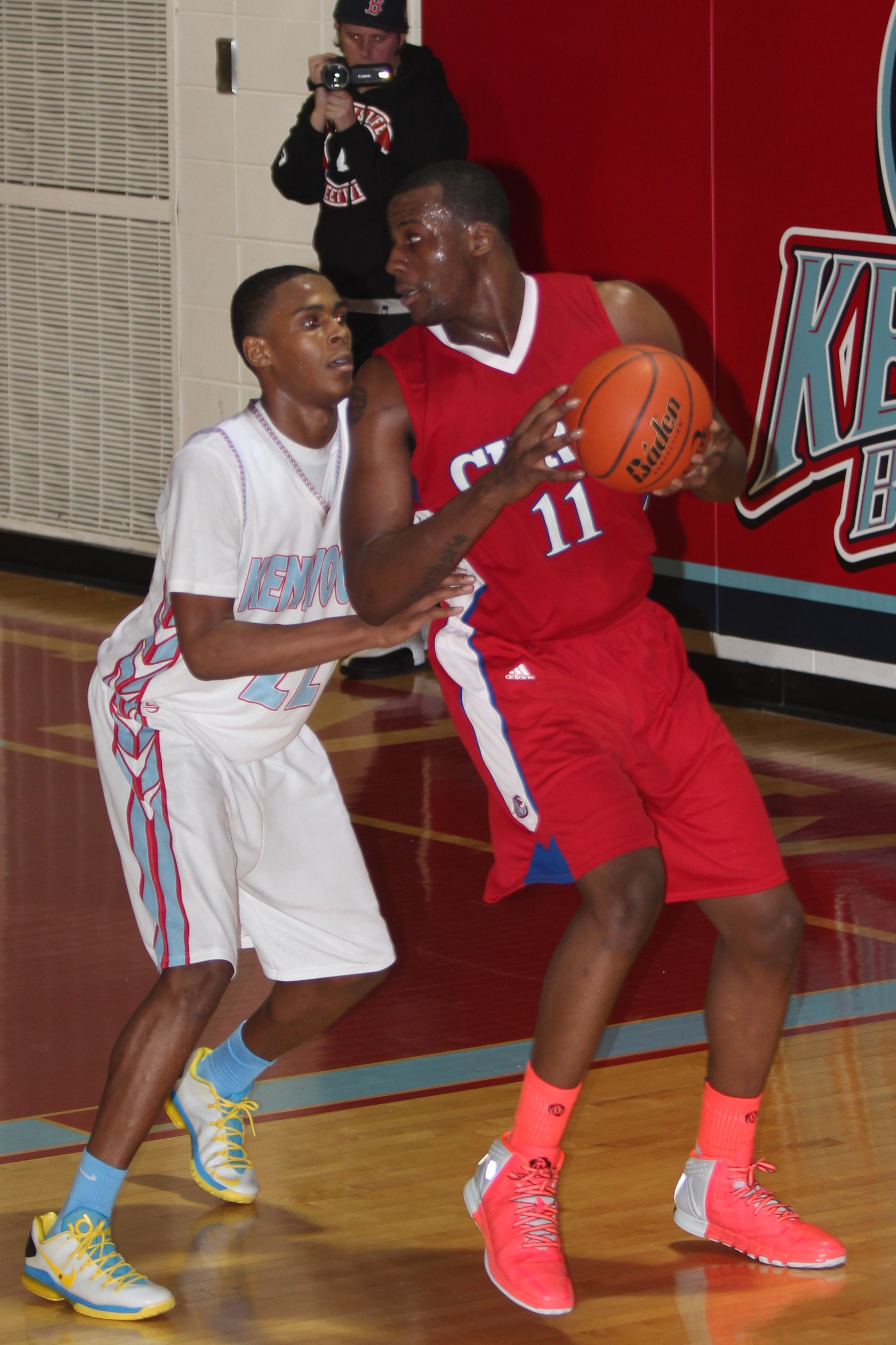 Cliff Alexander and Nick Robinson at Kenwood Academy